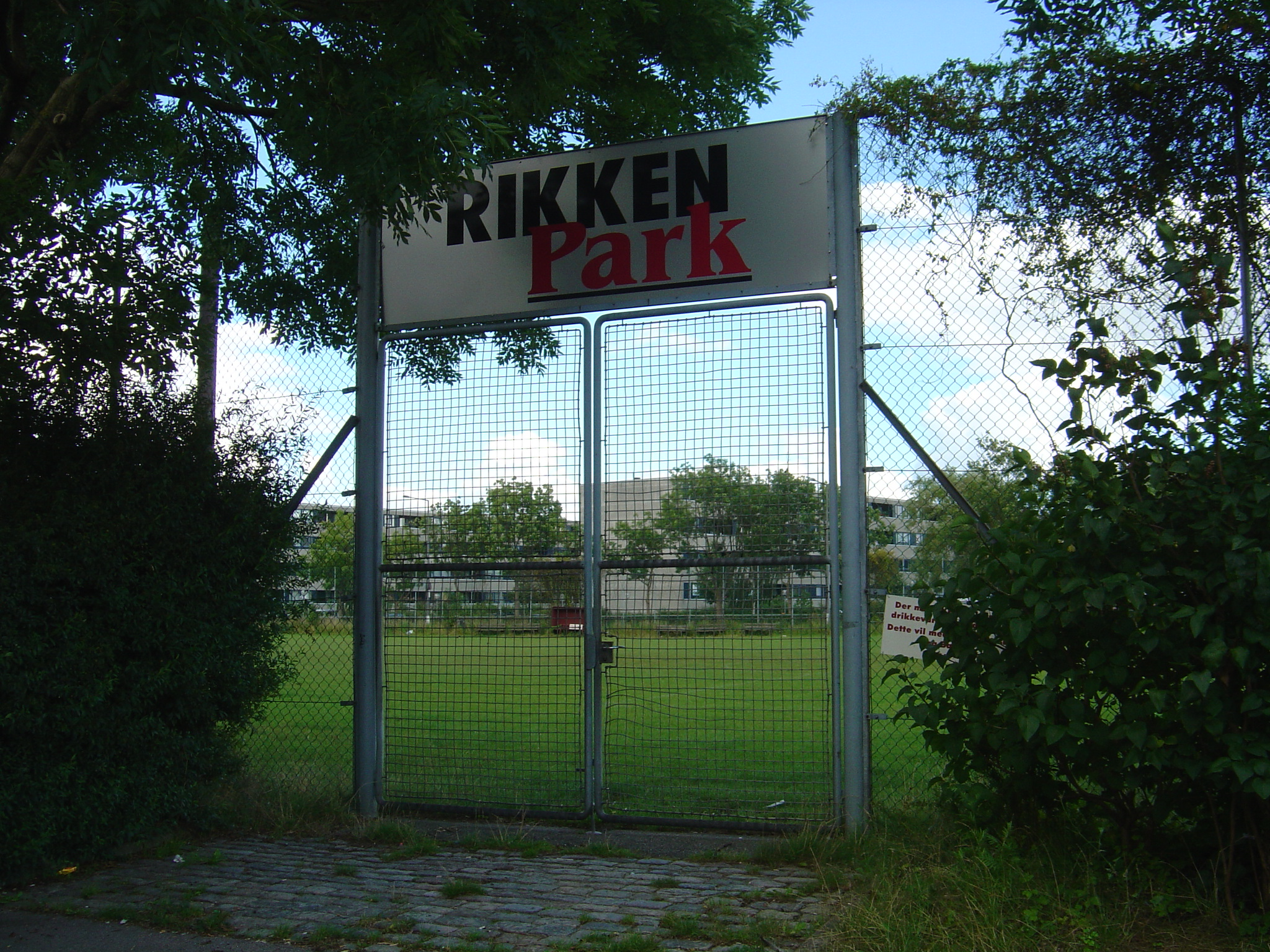 Rikken Park - the main entrance to the ground, that is used by Rikken F.C., located in Valby, Copenhagen. Seen from the west side.